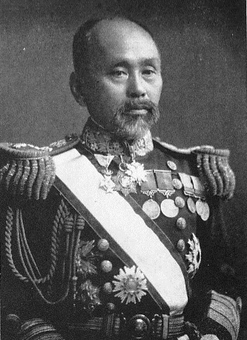 Sonojo Hidaka